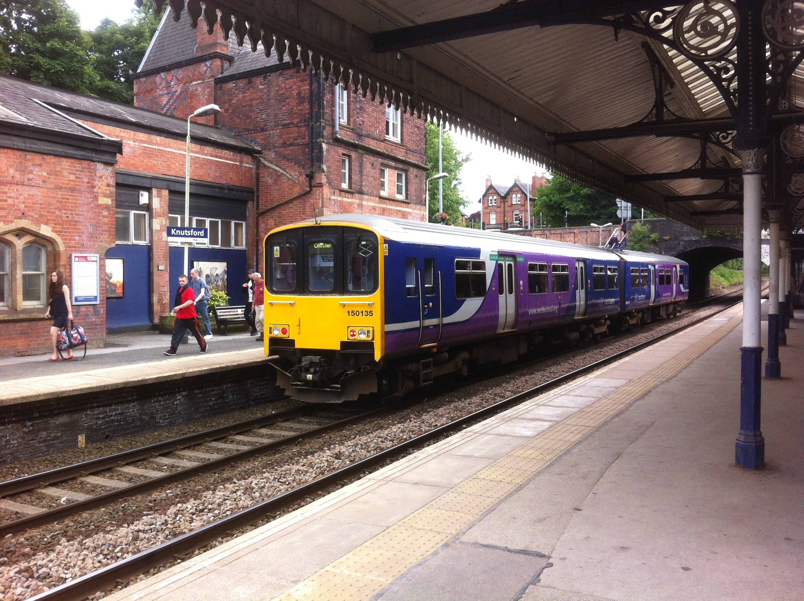 Knutsford railway station in 2015, as seen from platform 1, with a Northern Rail BR Class 150 awaiting departure on platform 2.